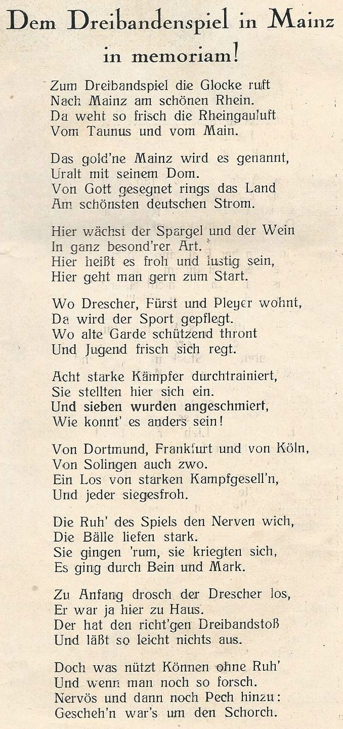 1928 German 3-cushion Championship-Poem to the championship, probably from Albert Jung